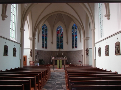 Inside of the st Gregrorius Church at Bredevoort